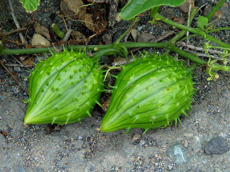 Description Marah oreganus — Coast Manroot. Location San Bruno Mountain, San Mateo Co., California.Coastal sage and chaparral habitat. Date June 2, 2002 Photographer Franco Folini